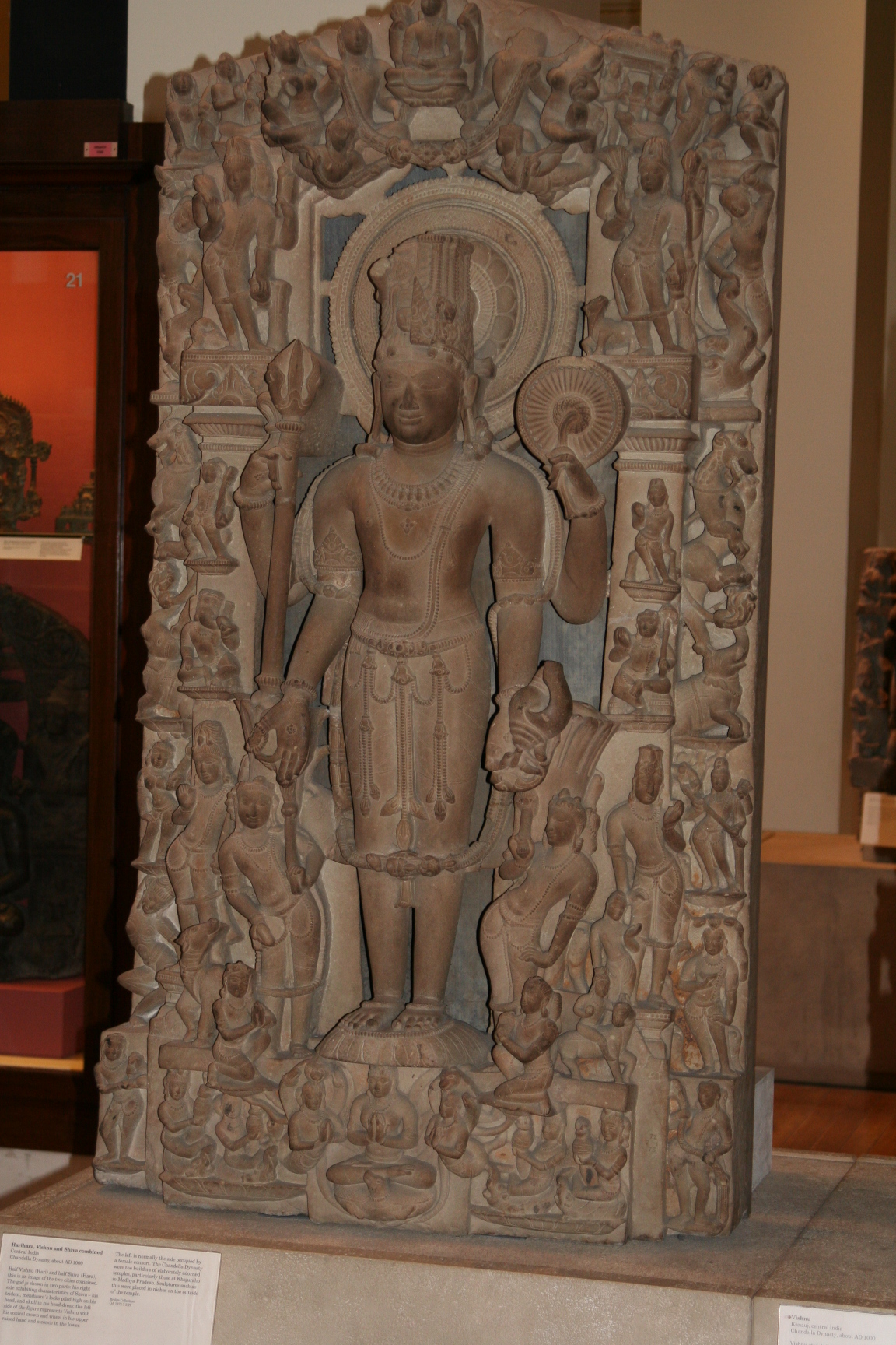 Harihara: combined form of Shiva and Vishnu. Photos taken at the British Museum - Asian Gallery